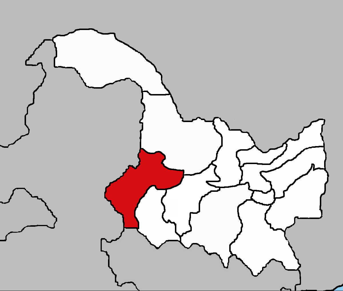 Maps of Qiqihar Prefecture — Heilongjiang Province, northeast China.